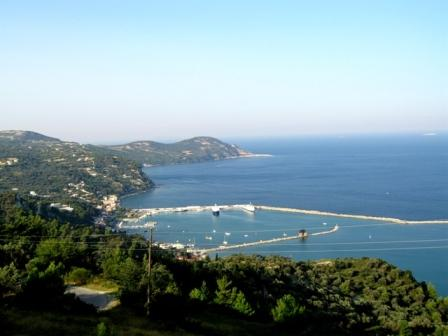 Kimi, view of the port from Figouli, Enoria